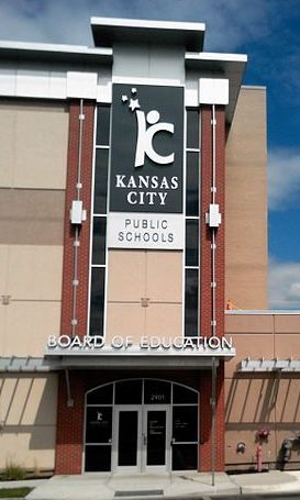 photo of the Kansas City Public Schools (Kansas City, Missouri) Board of Education building 2017-05-24